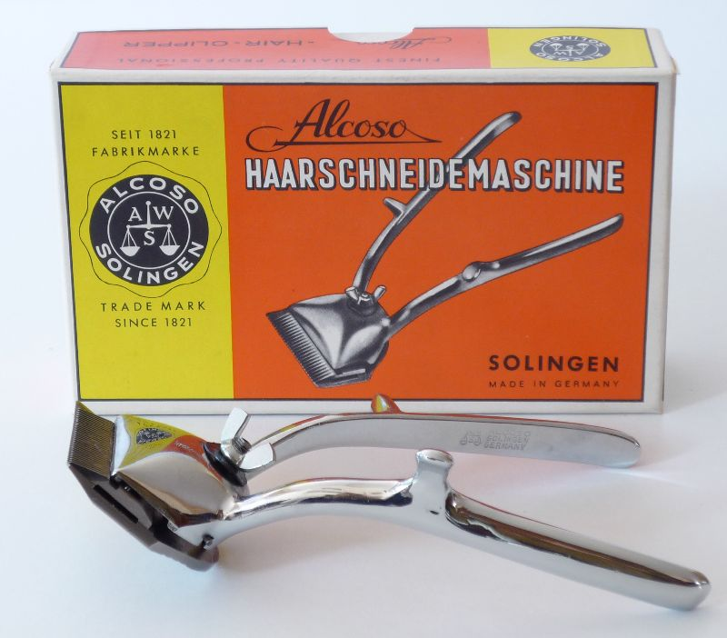 A pair of manual barber clippers "Alcoso", approx. 1960